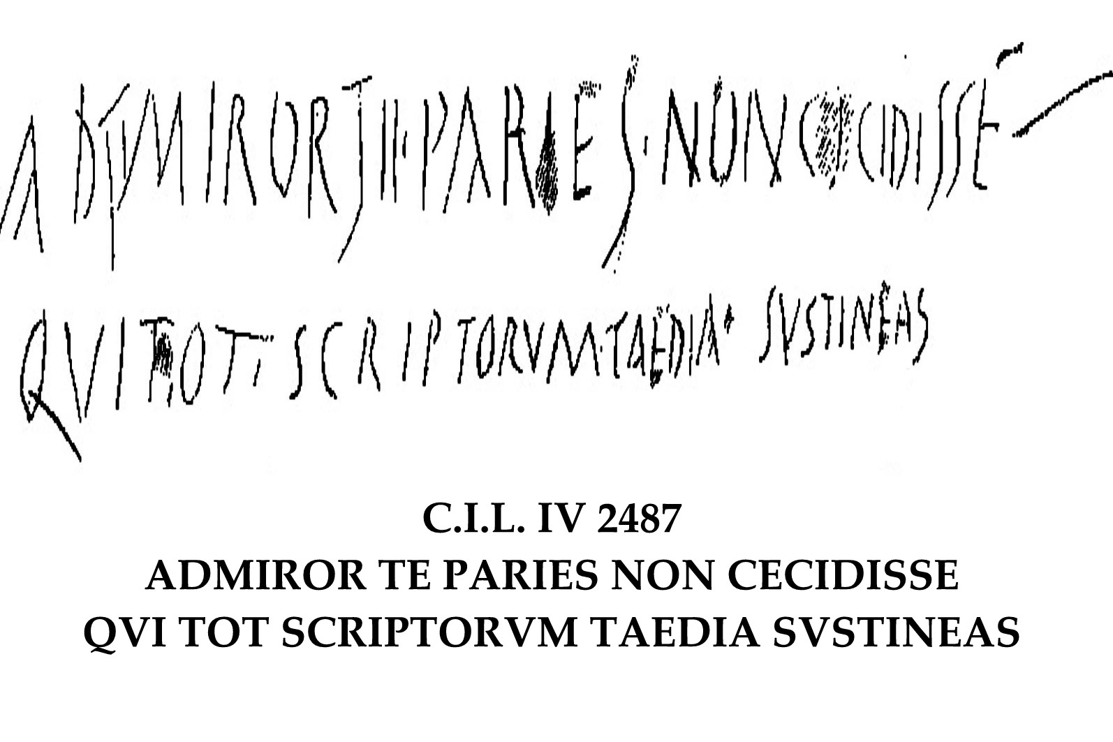 Latin graffiti found in Pompeii: "I admire you, wall, which does not run, while you have to endure the annoying inscriptions of so many writers!"